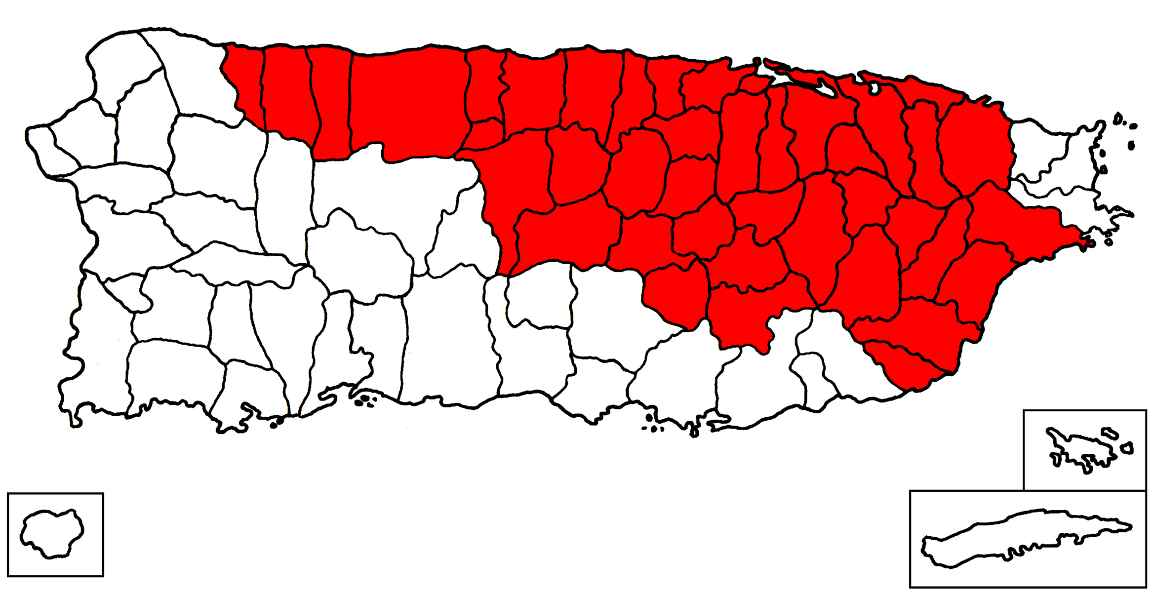 Locator map of the San Juan–Caguas–Guaynabo Metropolitan Statistical Area [MSA] in the northern part of the U.S. territory of Puerto Rico.